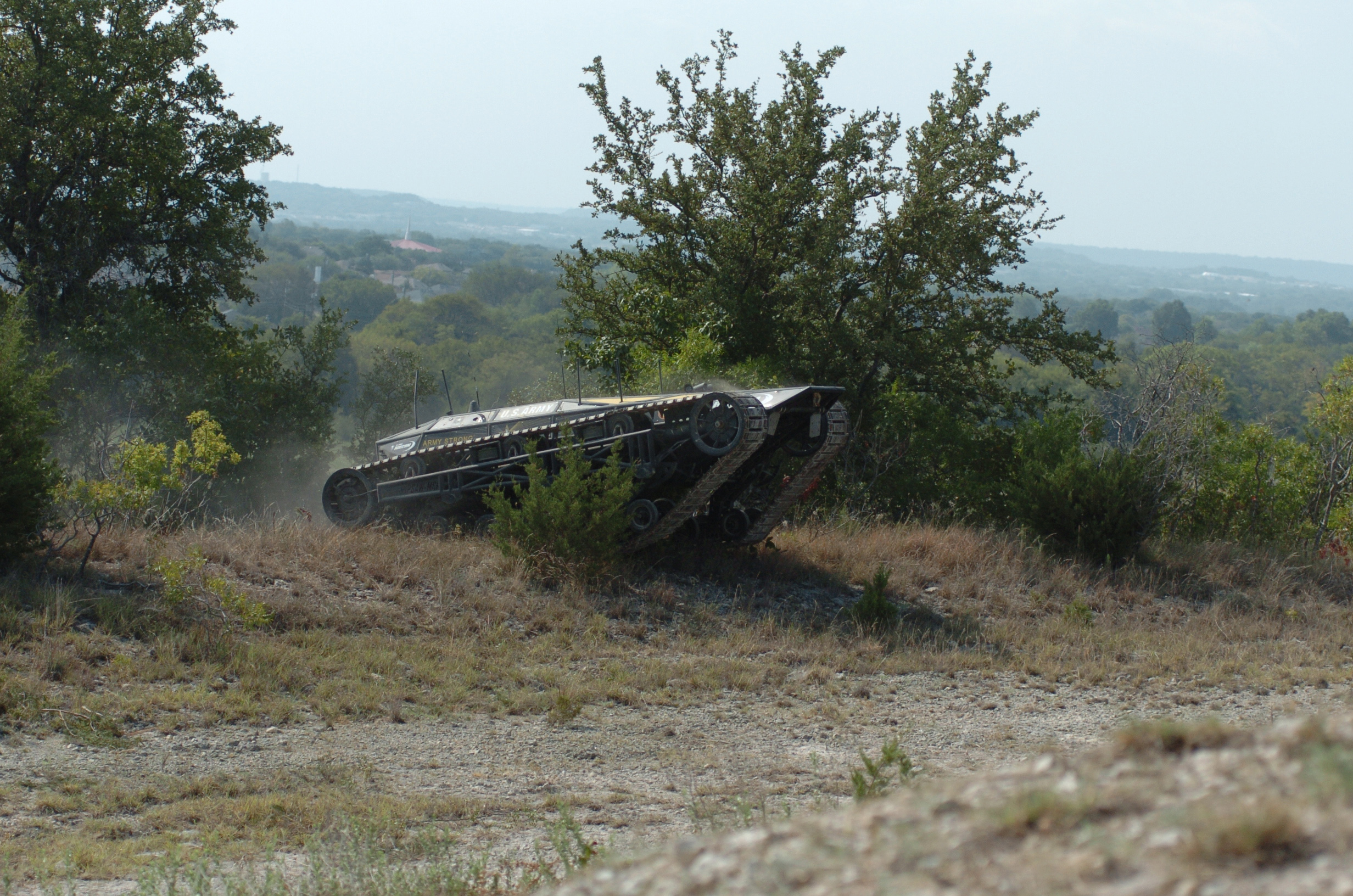 The RIPSAW-MS1 demonstrates its off-road capabilities during a lanes exercise at the Fort Hood Robotics Rodeo. The RIPSAW is equipped with six claymore mines, can carry 5,000 pounds and tow multiple military vehicles. The RIPSAW is designed to be an unmanned convoy security vehicle. See more at Robotics Rodeo aims to save lives